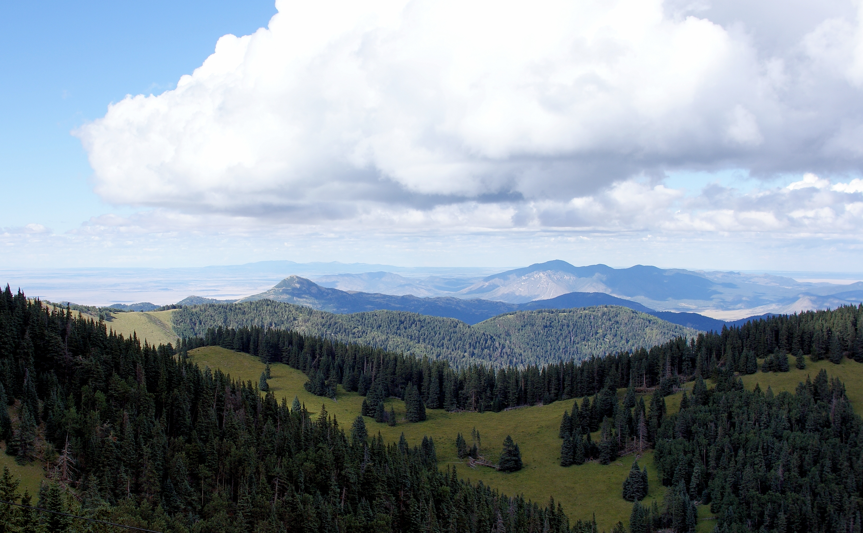 From the slopes of Sierra Blanca and Ski Apache, you can see the Capitan Mountains to the north. A large storm cloud lingers over them.